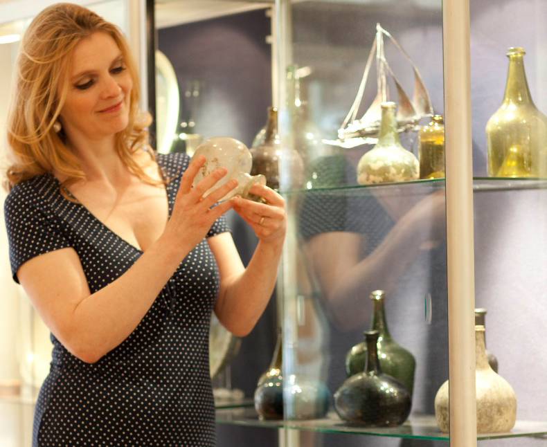 Picture of Dutch glass expert Kitty Lameris, Amsterdam, Spiegelstreet